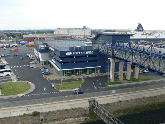 P & O Terminal The P & O ferries terminal at St George's Docks, Hull